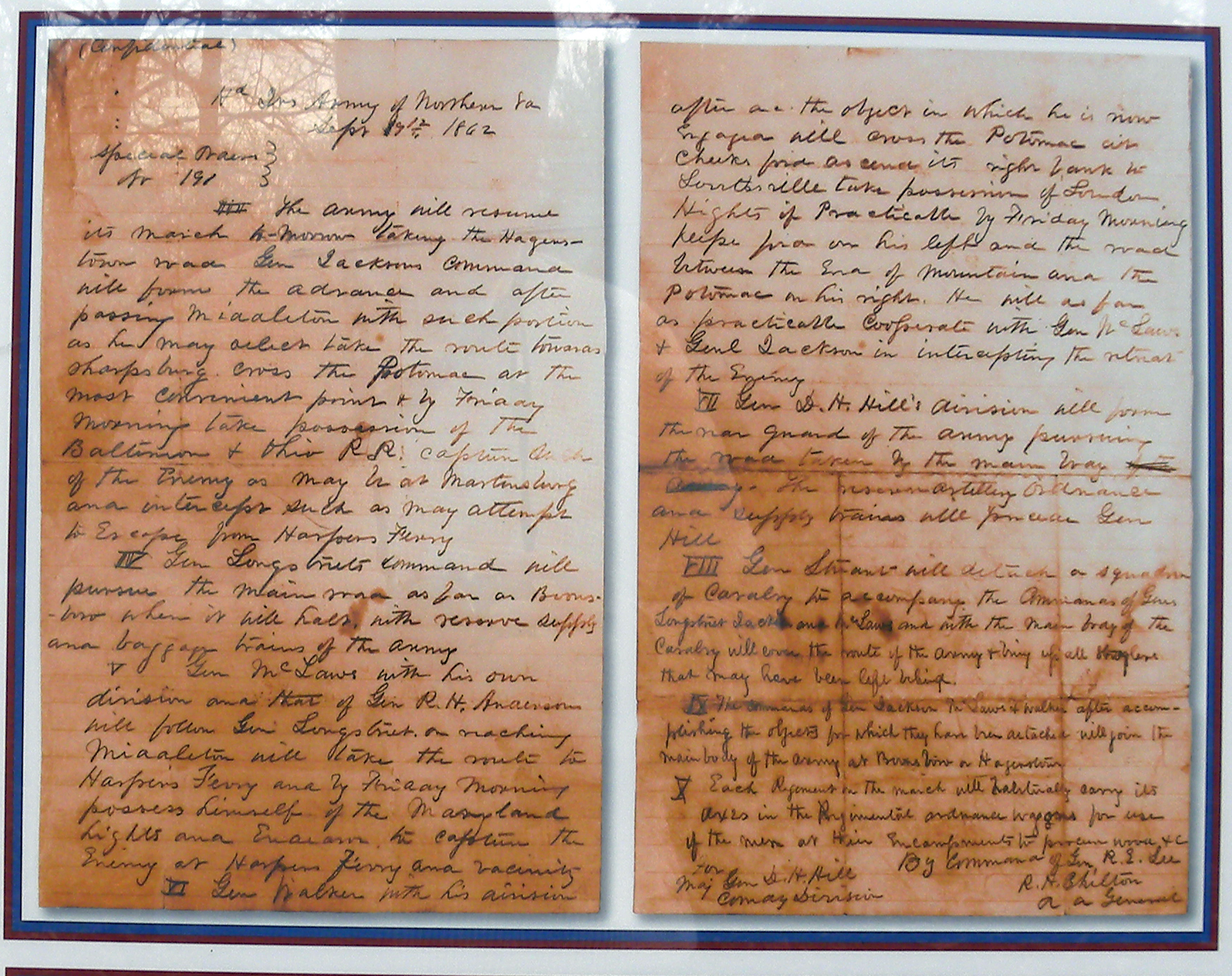 Copy of General Robert E. Lee's 1862 "Lost Orders" displayed at Crampton's Gap, Maryland.